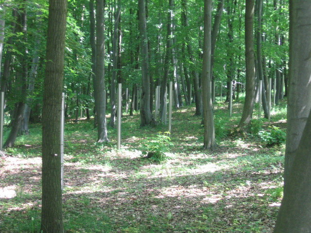 Graveyard of the Sovjet NKVD special camp Nr. 2 (1945–1950), Buchenwald. Each silver pole represents an unmarked grave. June 2006, Stephen Bell.